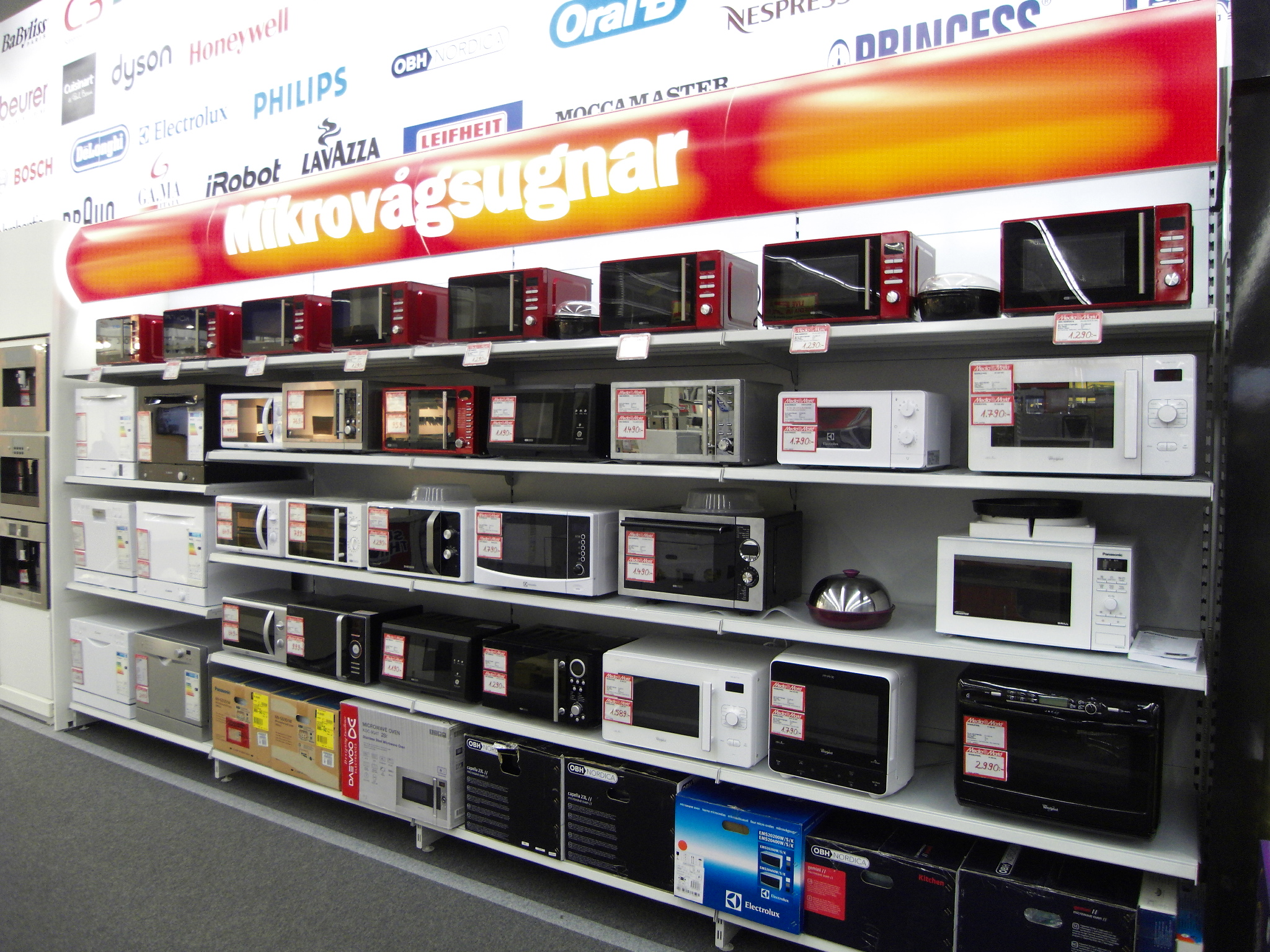 Microwave ovens in a Media Markt store in the neighbourhood Svågertorp, Malmo.